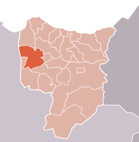 Ijermaouas